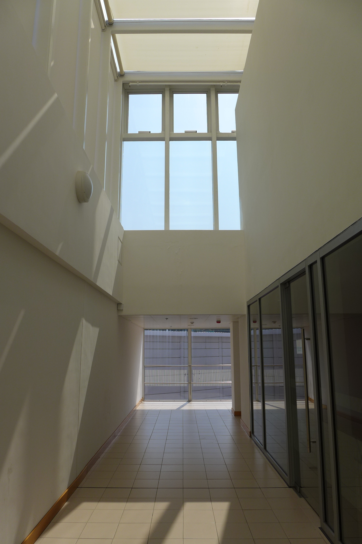 Tung Chung Man Tung Road Sports Centre